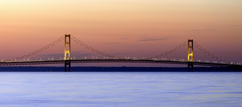 Mackinac Bridge at Sunset in 2008. Taken with Nikon D80, Nikkor-Q 200mm f/4